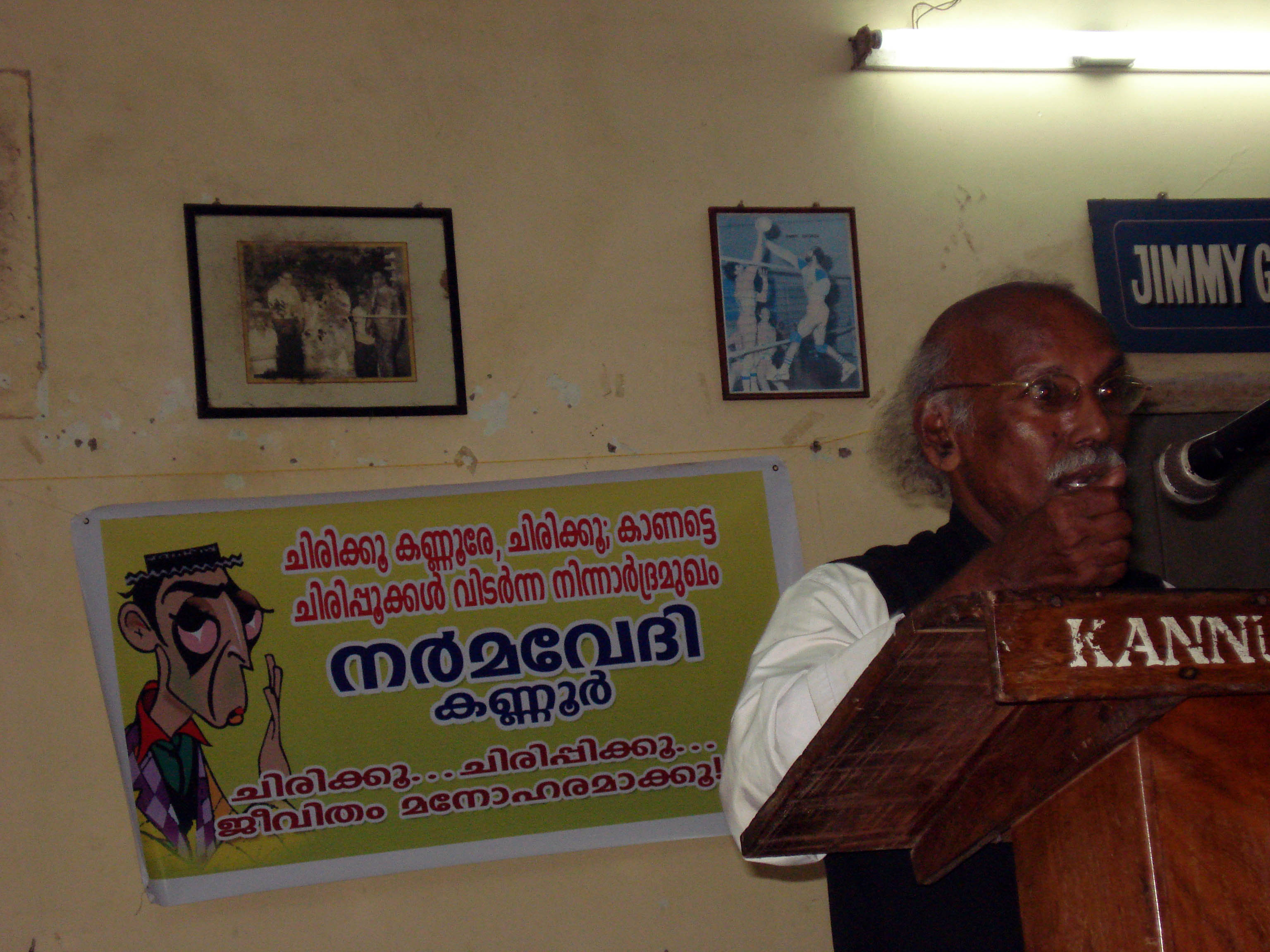 Makaaram Mathew is a malayali who could speak many words starting the malayalam word 'Ma'